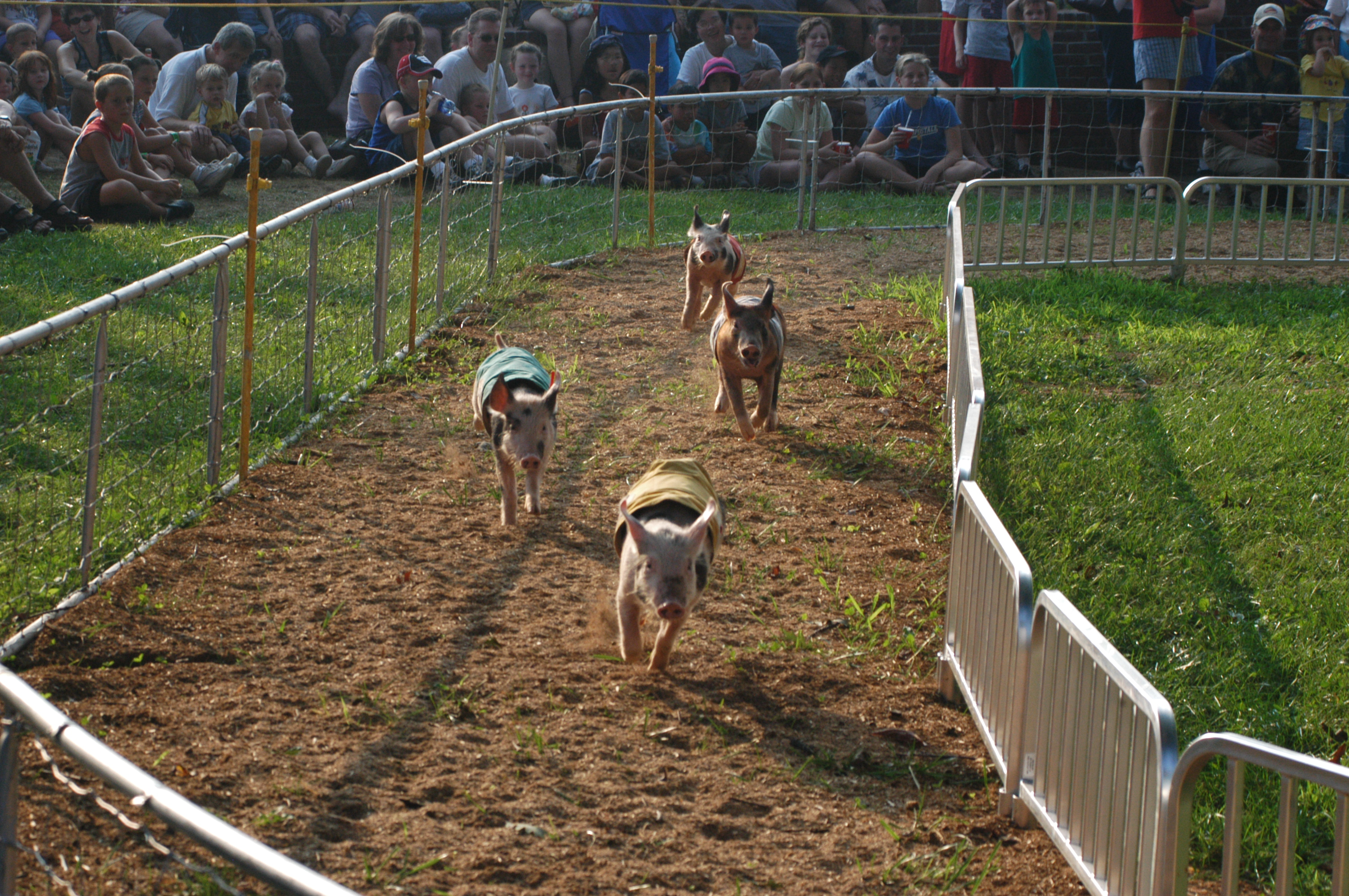 Picture of a pig race at the Montgomery County fair in Gaithersburg, MD. Taken on August 14, 2003 and released under the GNU FDL.